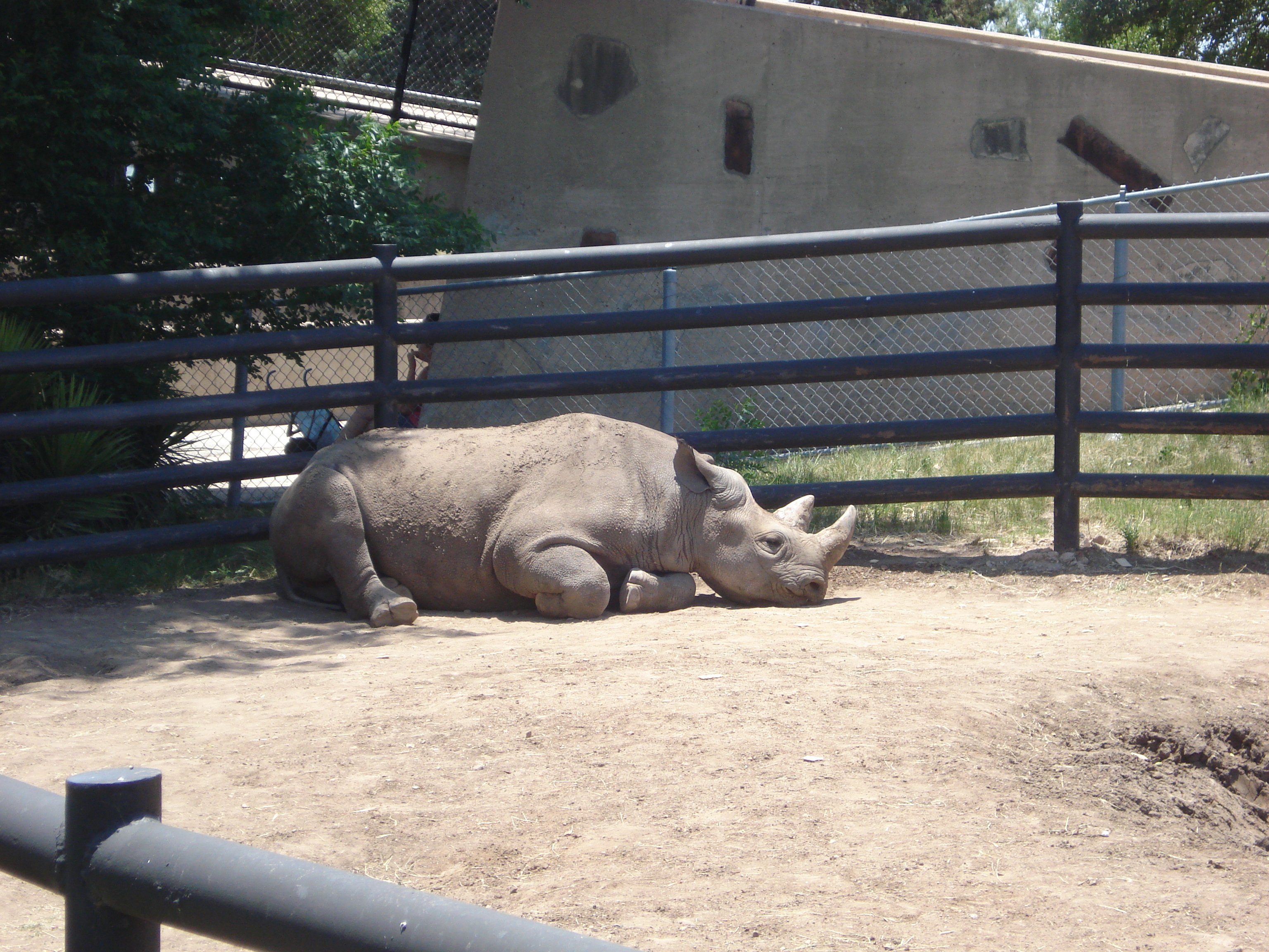 Rhinoceros at Abilene Zoological Gardens, Abilene, Texas.